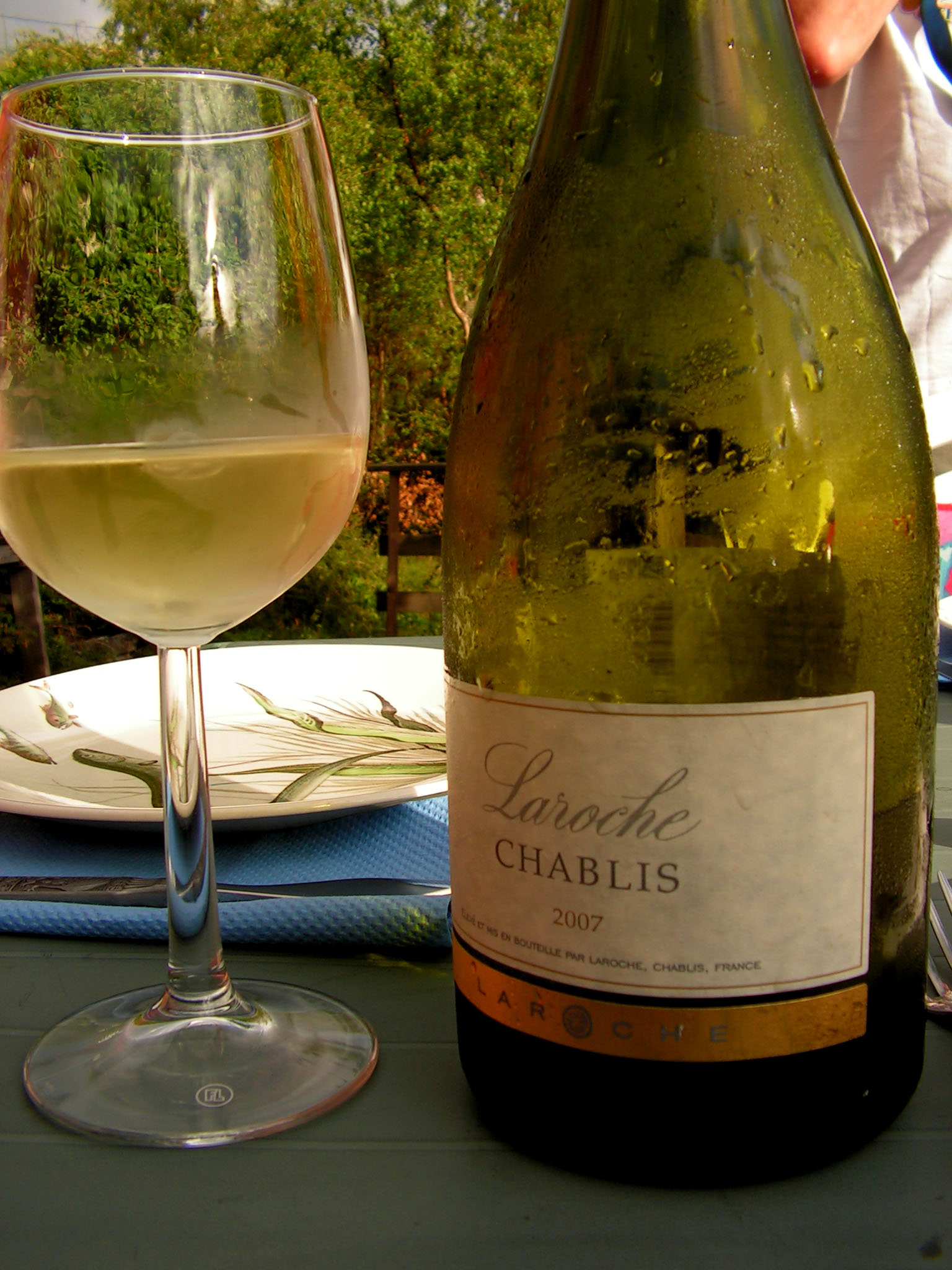 A glass of the French wine Chablis made from Chardonnay grapes.